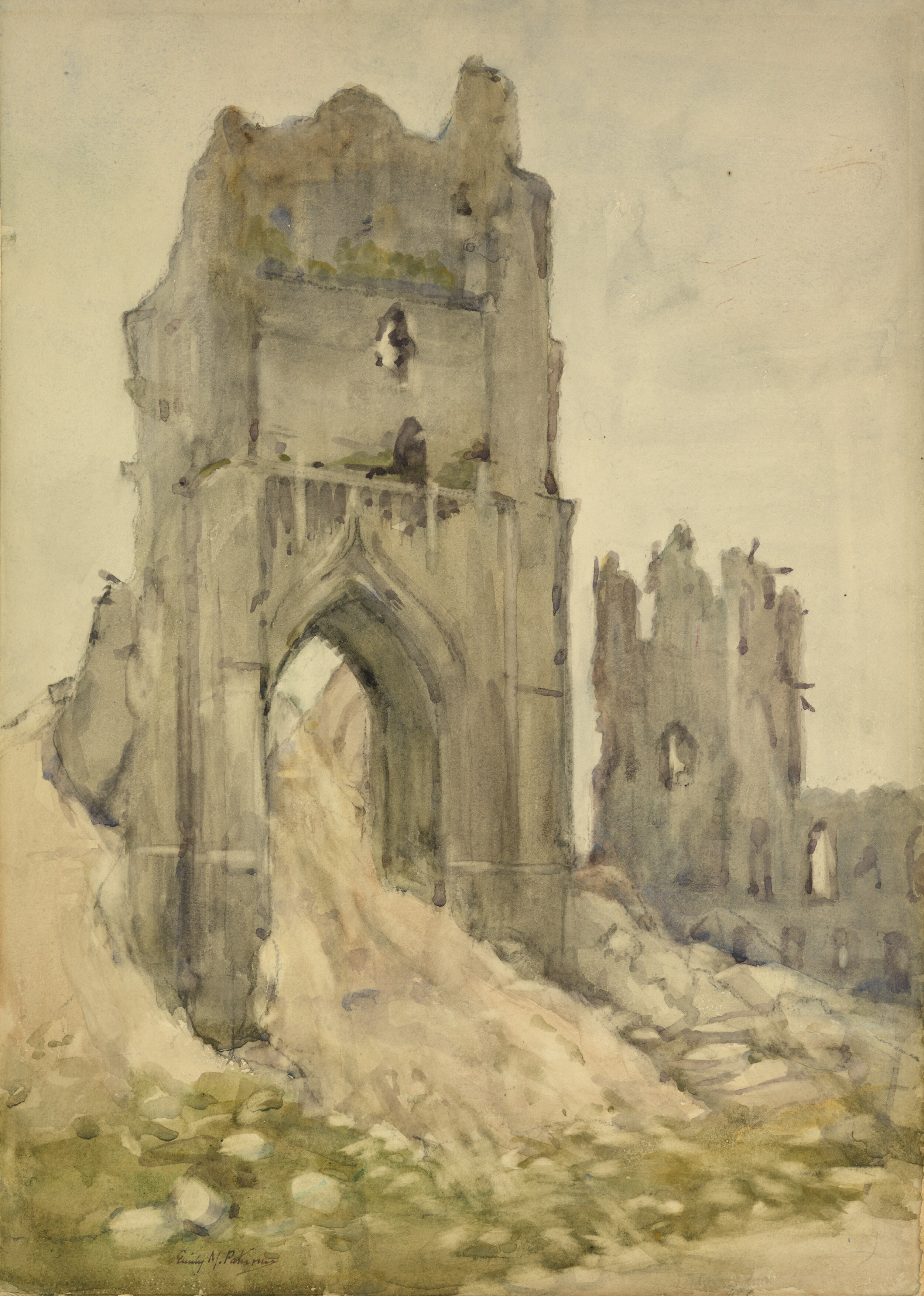 East Entrance, St Martin's Cathedral, Ypres image: a ruined wall and doorway to the cathedral, with rubble scattered around and the remains of the main section of the building in the background.